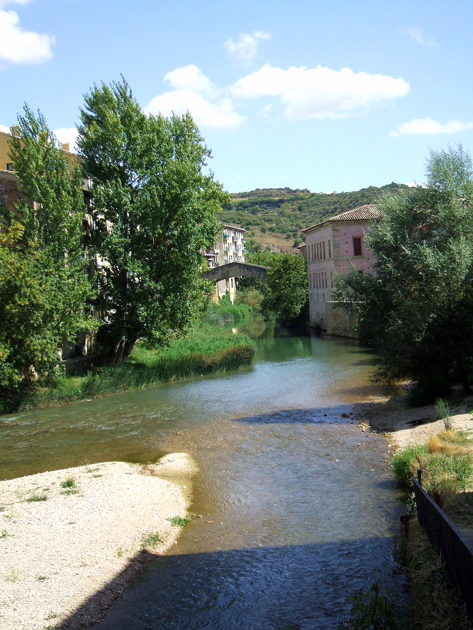 El Ega a su paso por Estella (Navarra, España)